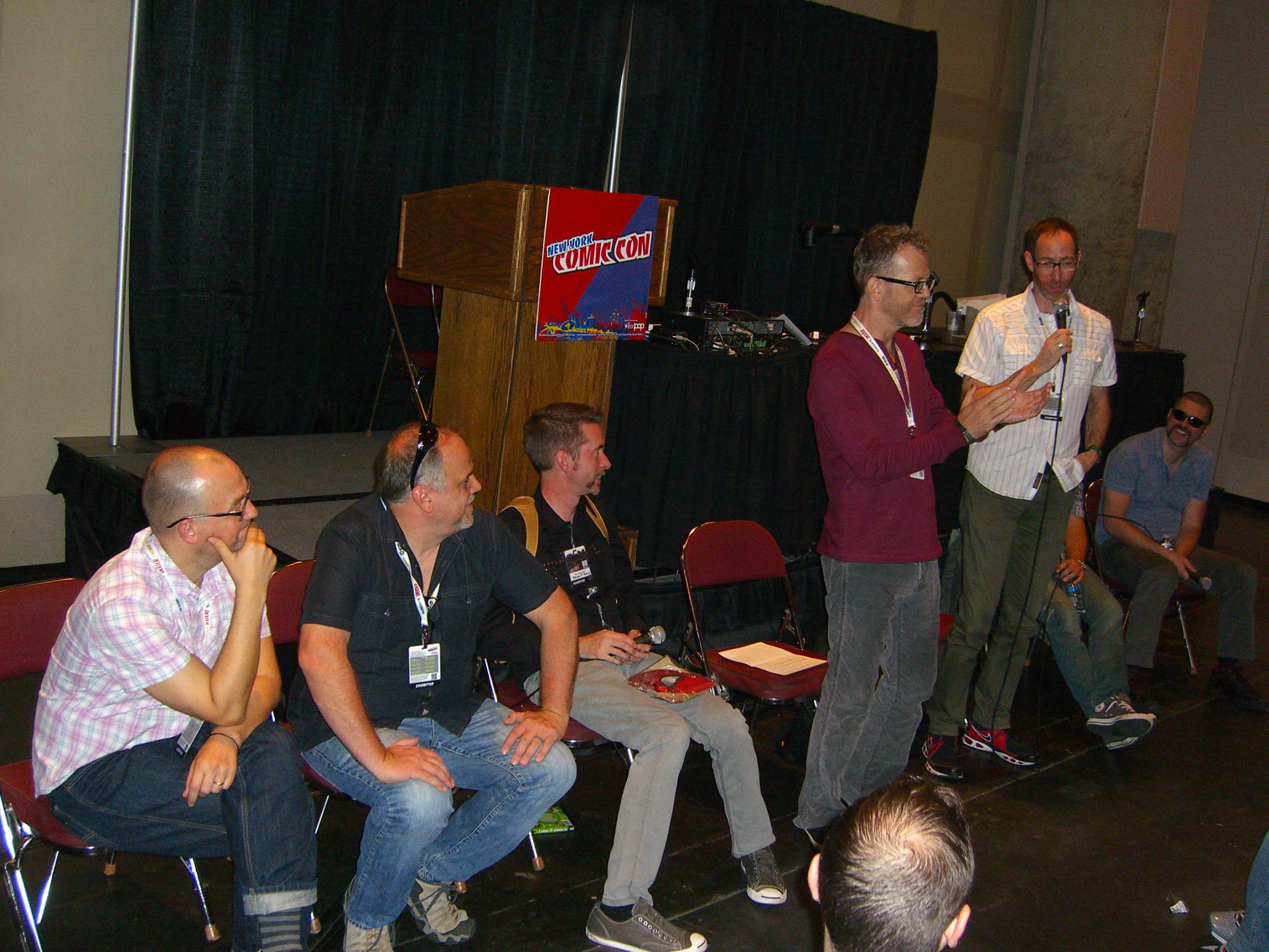 Panel discussion featuring members of the animation and comics production studio Man of Action on Day 4 of the 2012 New York Comic Con, Sunday October 14, 2012 at the Jacob K. Javits Convention Center in Manhattan. From left to right: Danish artist Teddy Kristiansen, Duncan Rouleau, Steven T. Seagle, Scott Brick, Joe Kelly, Marco Ceniallo (legs only), and Joe Casey. This photo was created by Luigi Novi. It is not in the public domain, and use of this file outside of the licensing terms is a copyright violation.